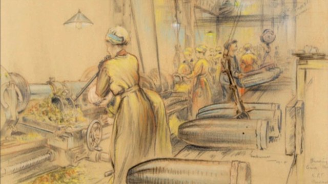 Painting by Frederick Farrell, made in Glasgow during World War 1.